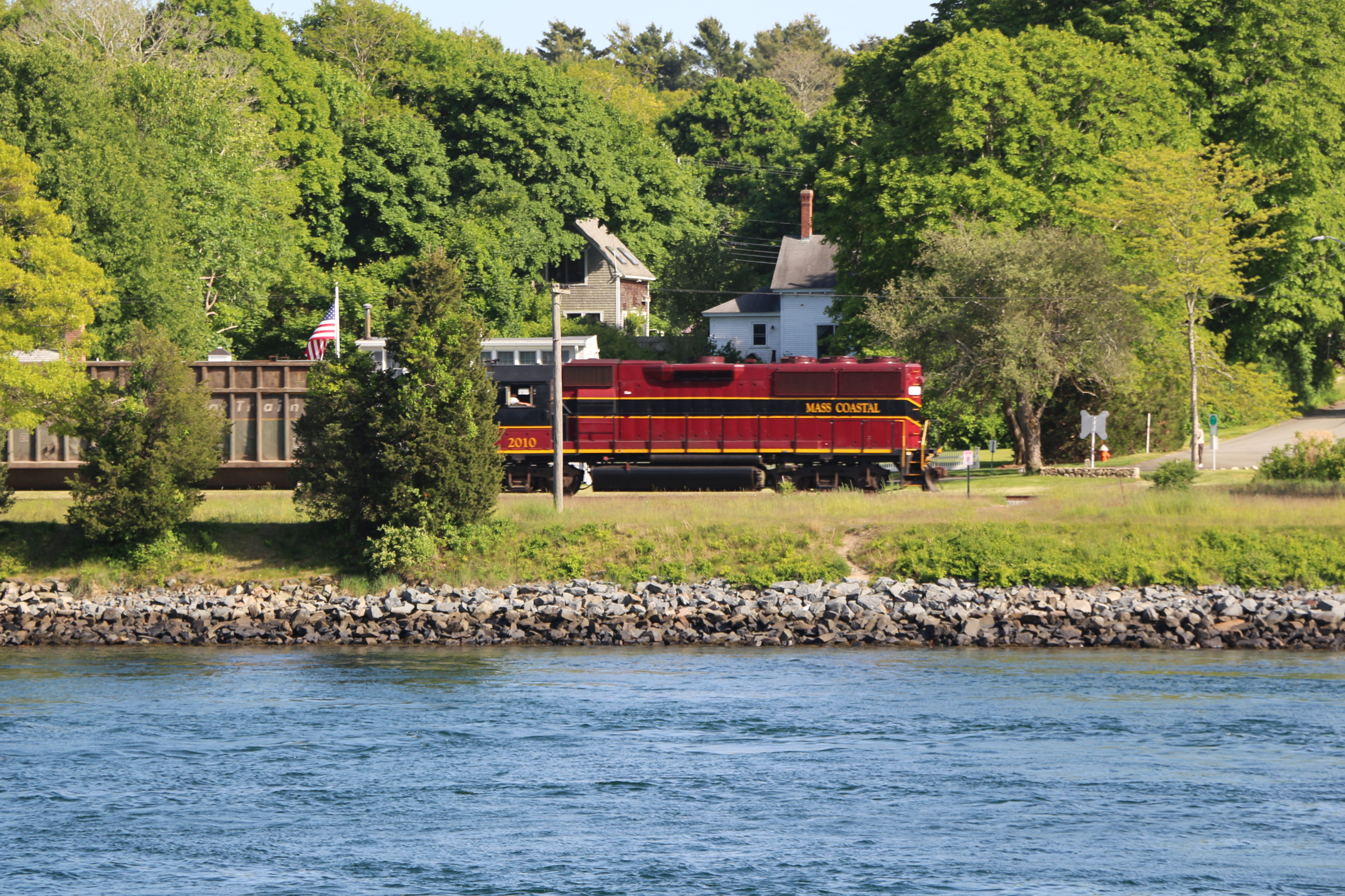 A Mass Coastal trash train passes Keene Street in Bourne, Massachusetts